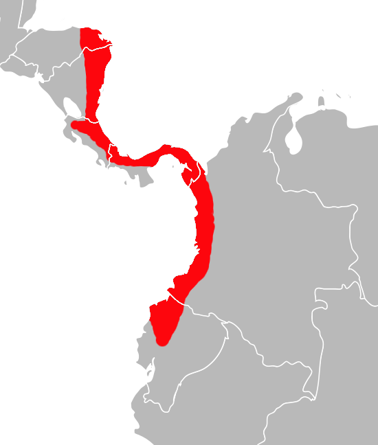 Distribution of the rodent Transandinomys bolivaris in the Americas. Source: Musser et al. (1998, Bull. Am. Mus. Nat. Hist. 236).